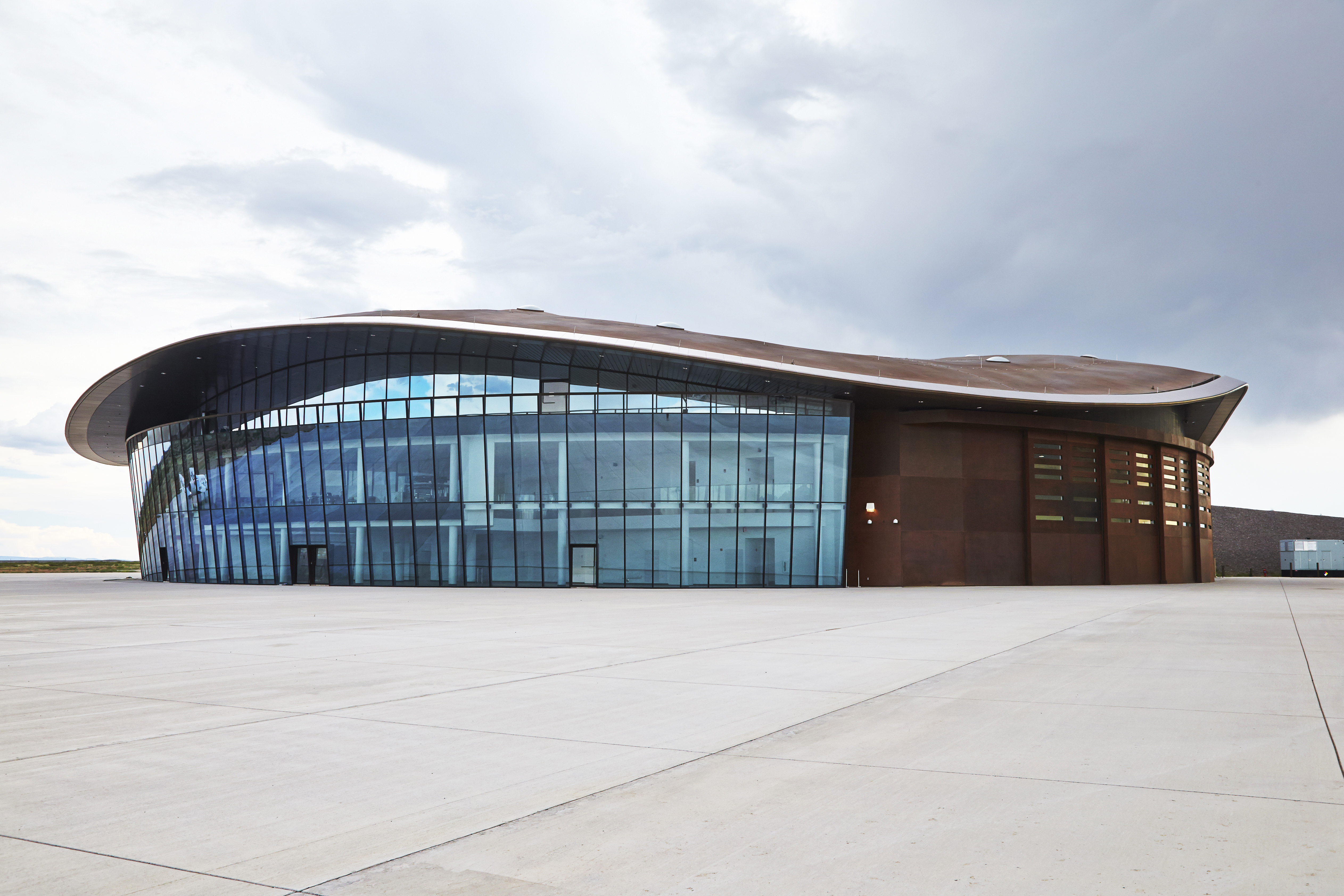 "The Gateway", terminal at the Spaceport America, taken during a Land Rover photo shoot.